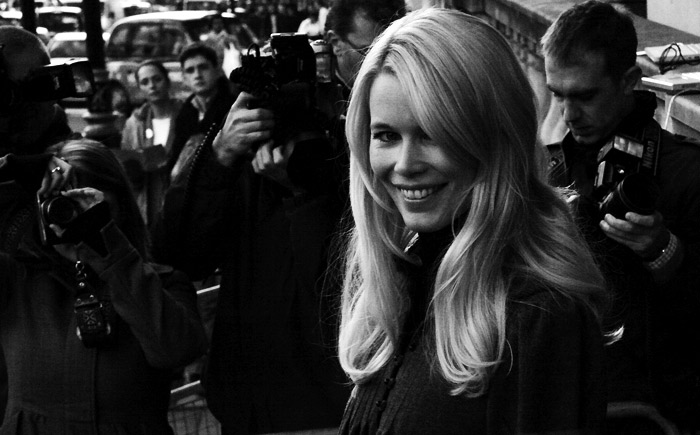 Claudia Schiffer in London, U.K.